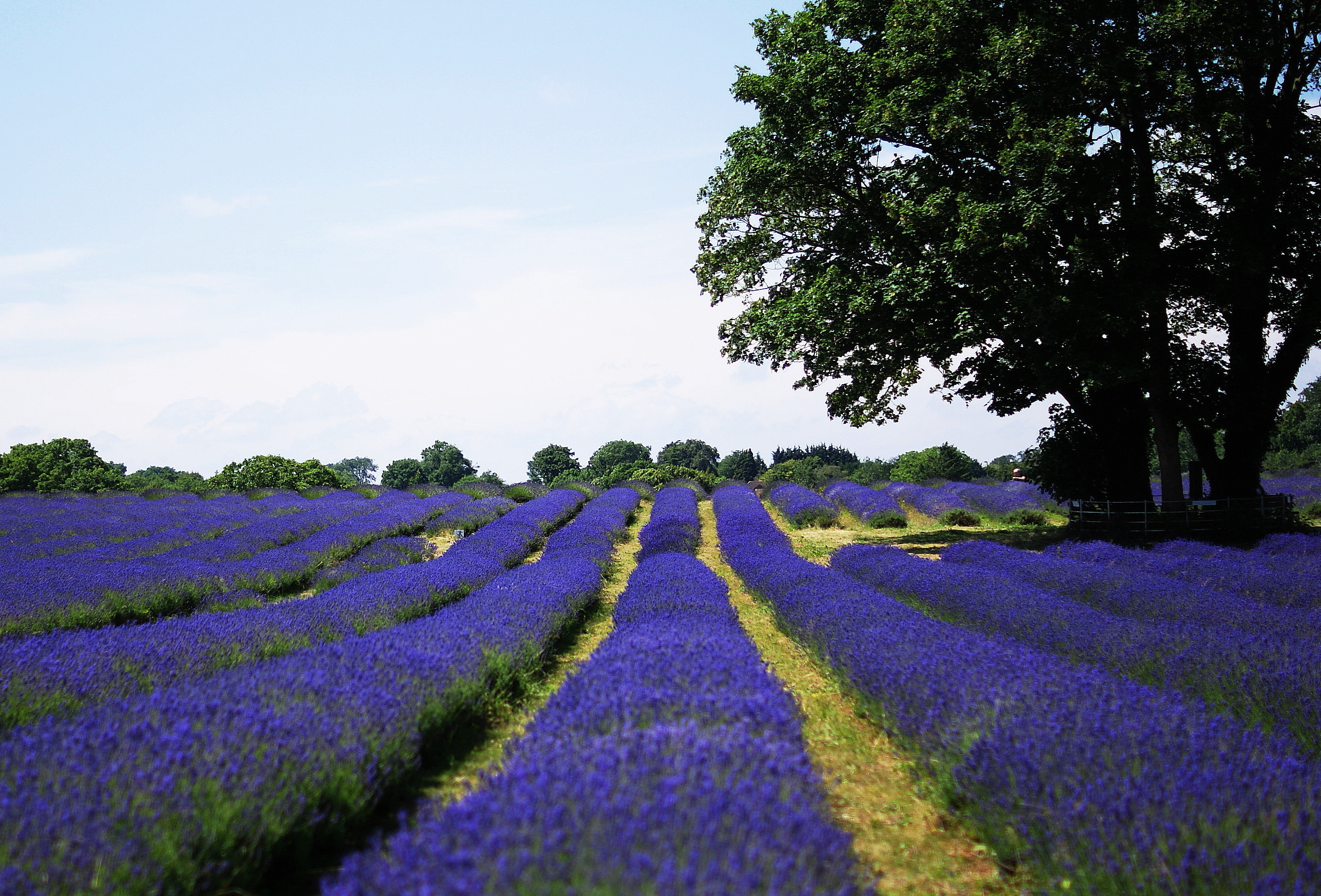 Our local Lavender fields, Carshalton, Surrey